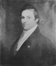 Portrait of Senator Martin D. Hardin of Kentucky